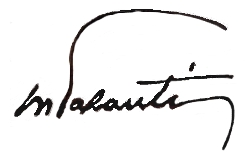 Mario Palanti signature